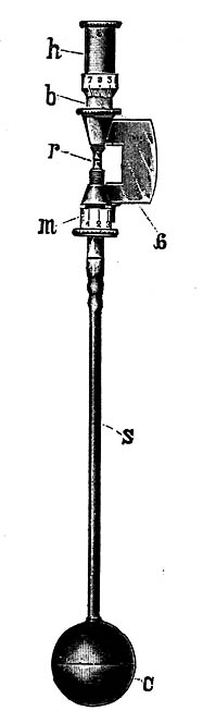 Galton's whistle